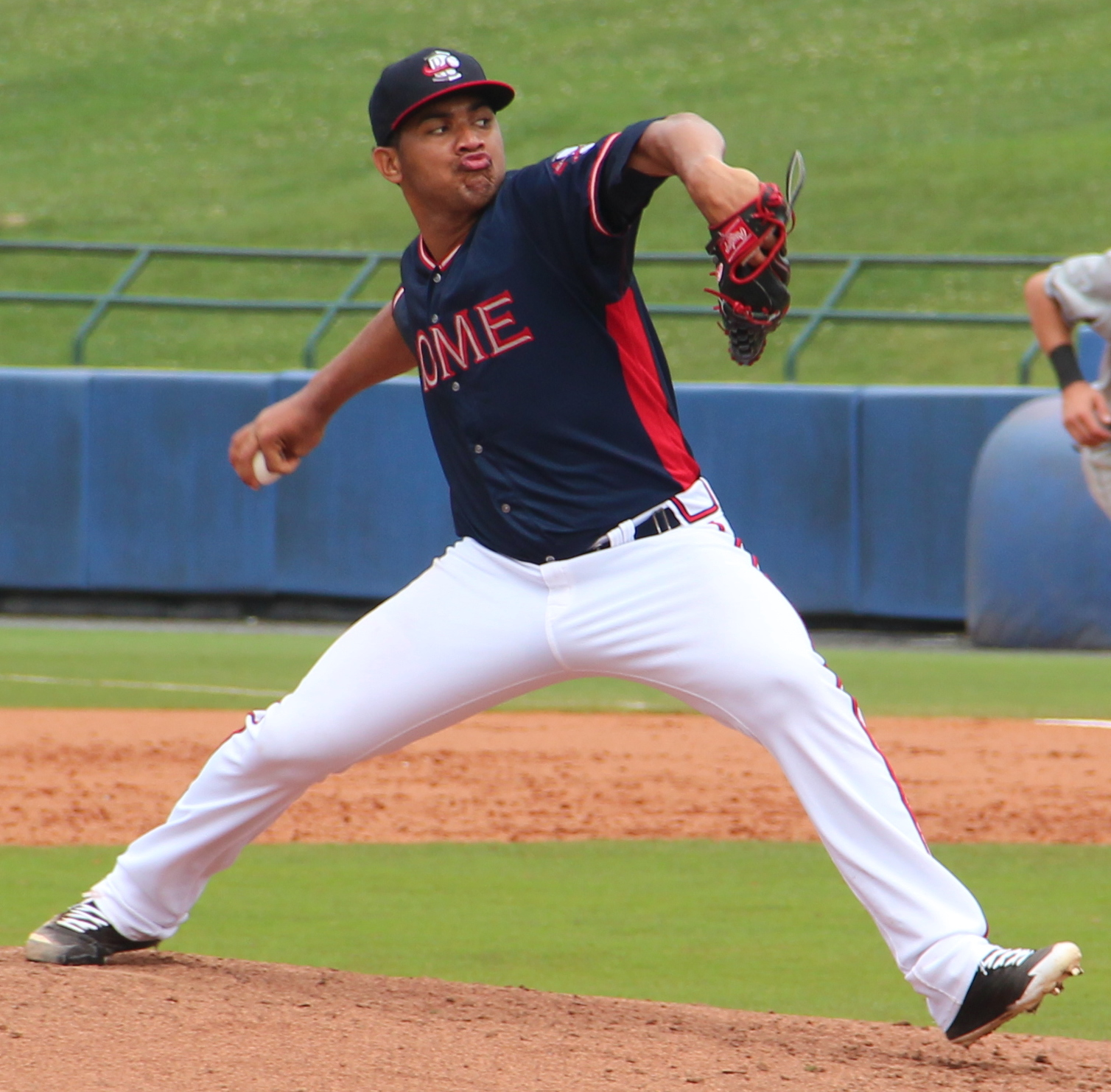 Rome Braves vs. Asheville Tourists, May 30, 2018